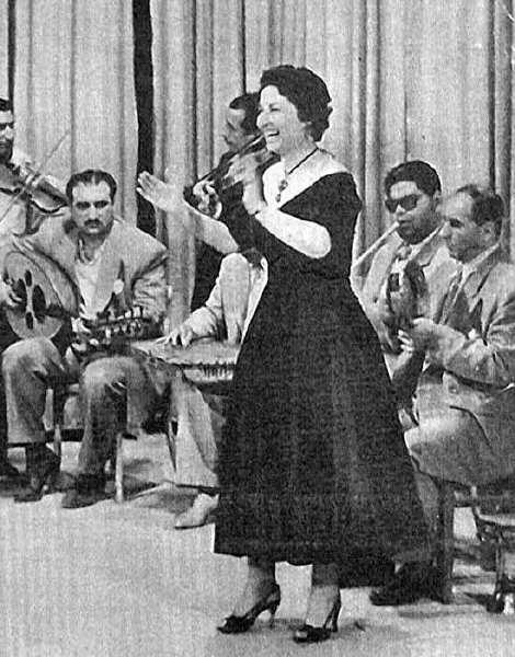 Afifa Iskandar Iraqi singer, the image was taken between 1950 - 1959 in Baghdad.